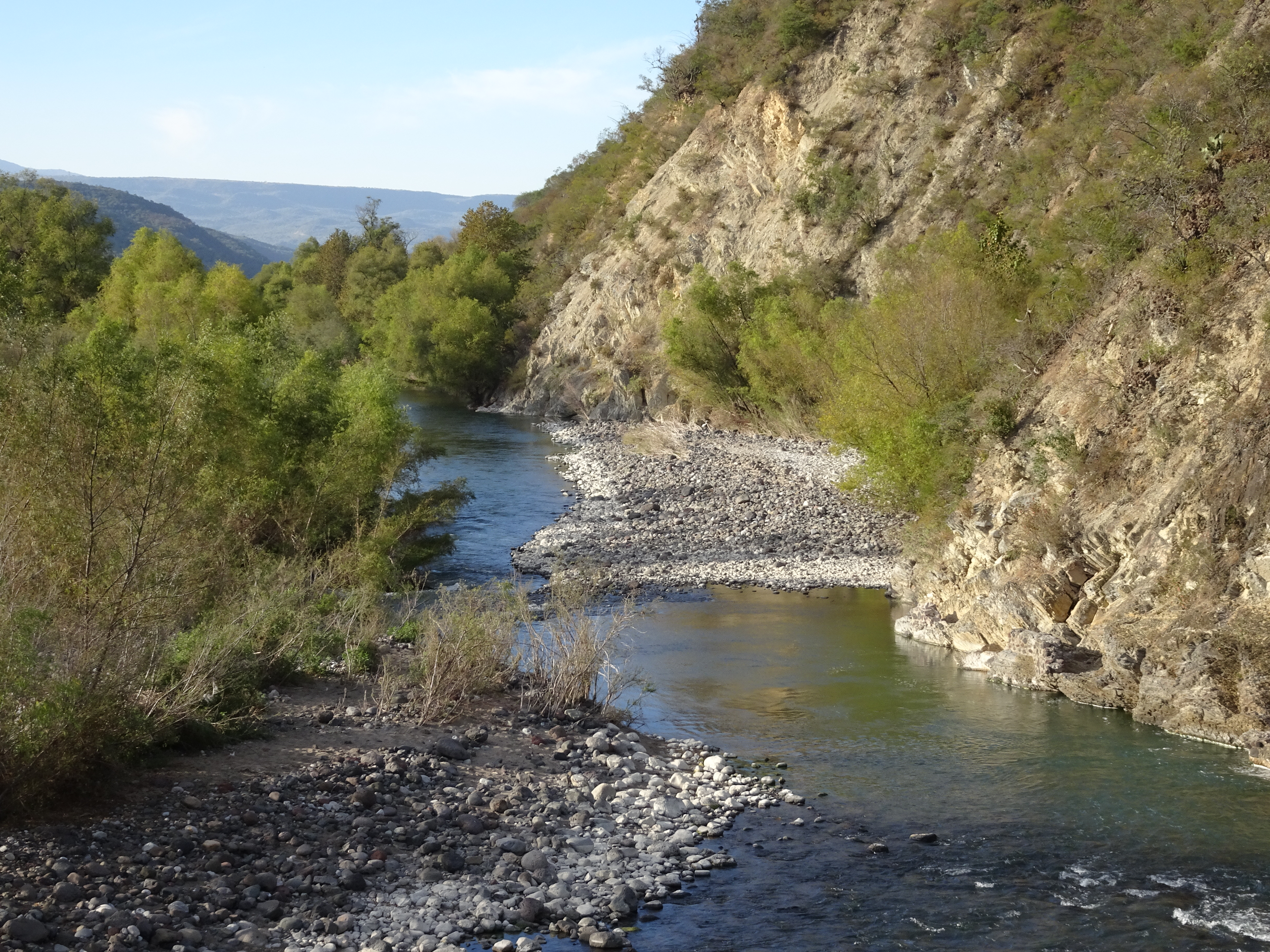 Rocas sedimentarias marinas (lutitas) del Cretácico, a la orilla del río Venados (Reserva de la Biosfera Barranca de Metztitlán)